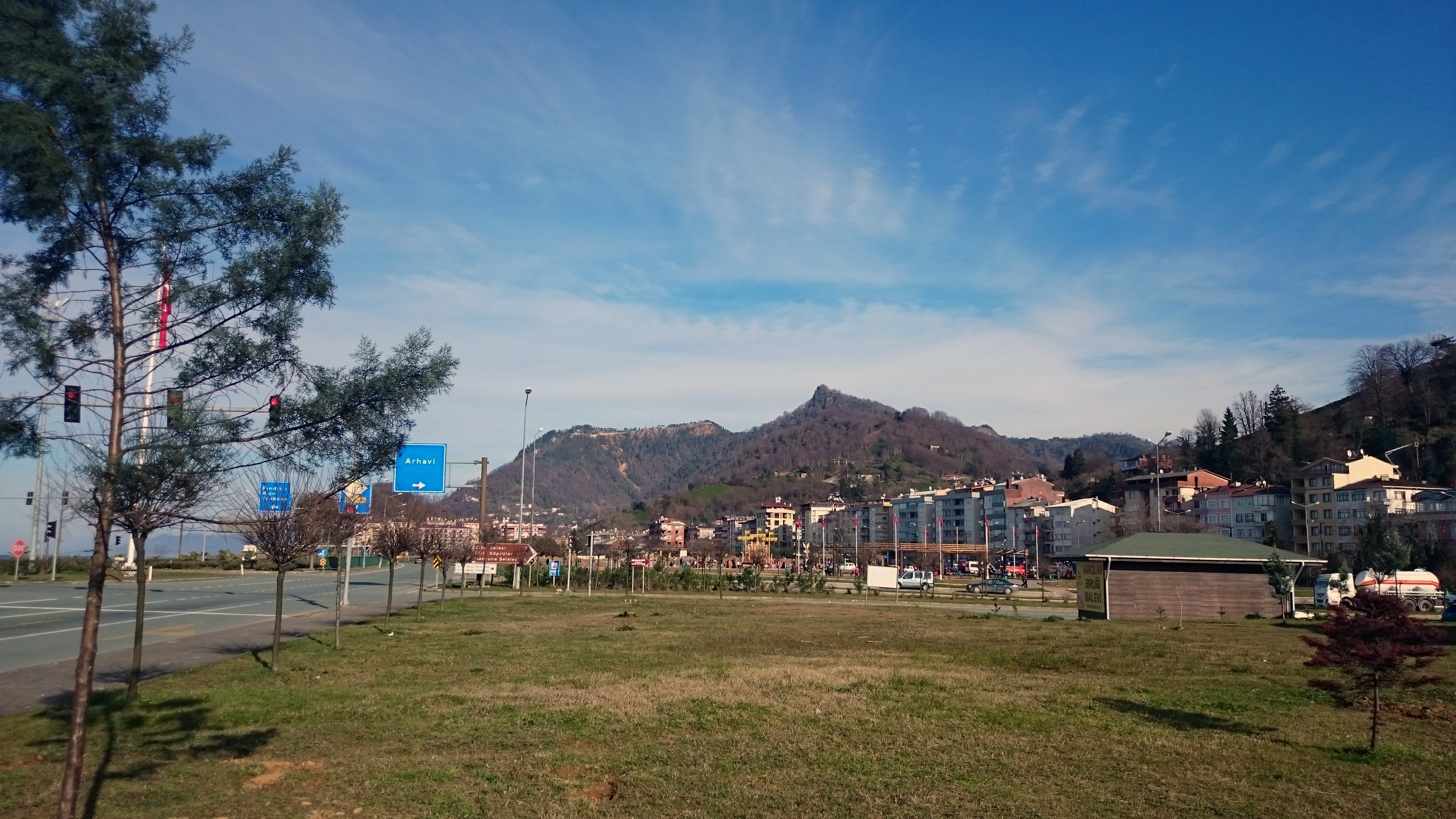 A view of Ciha hill from Arhavi city center